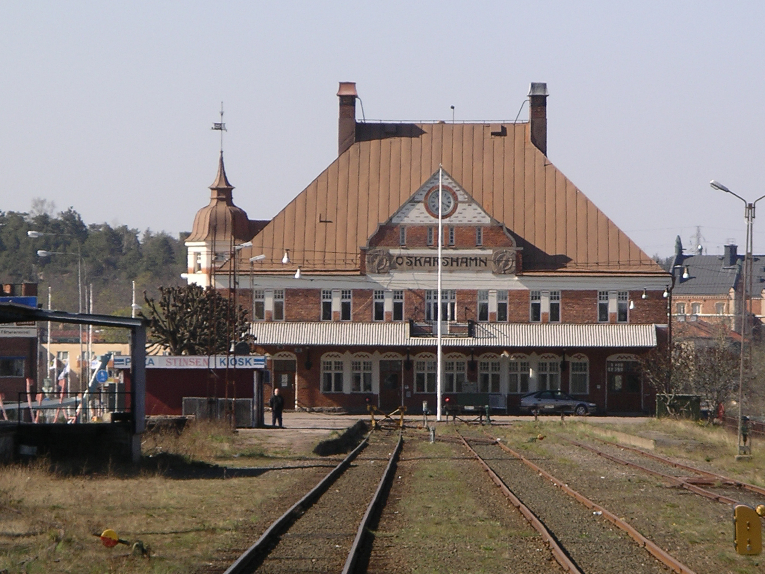 Railway station Oskarshamn in Sweden